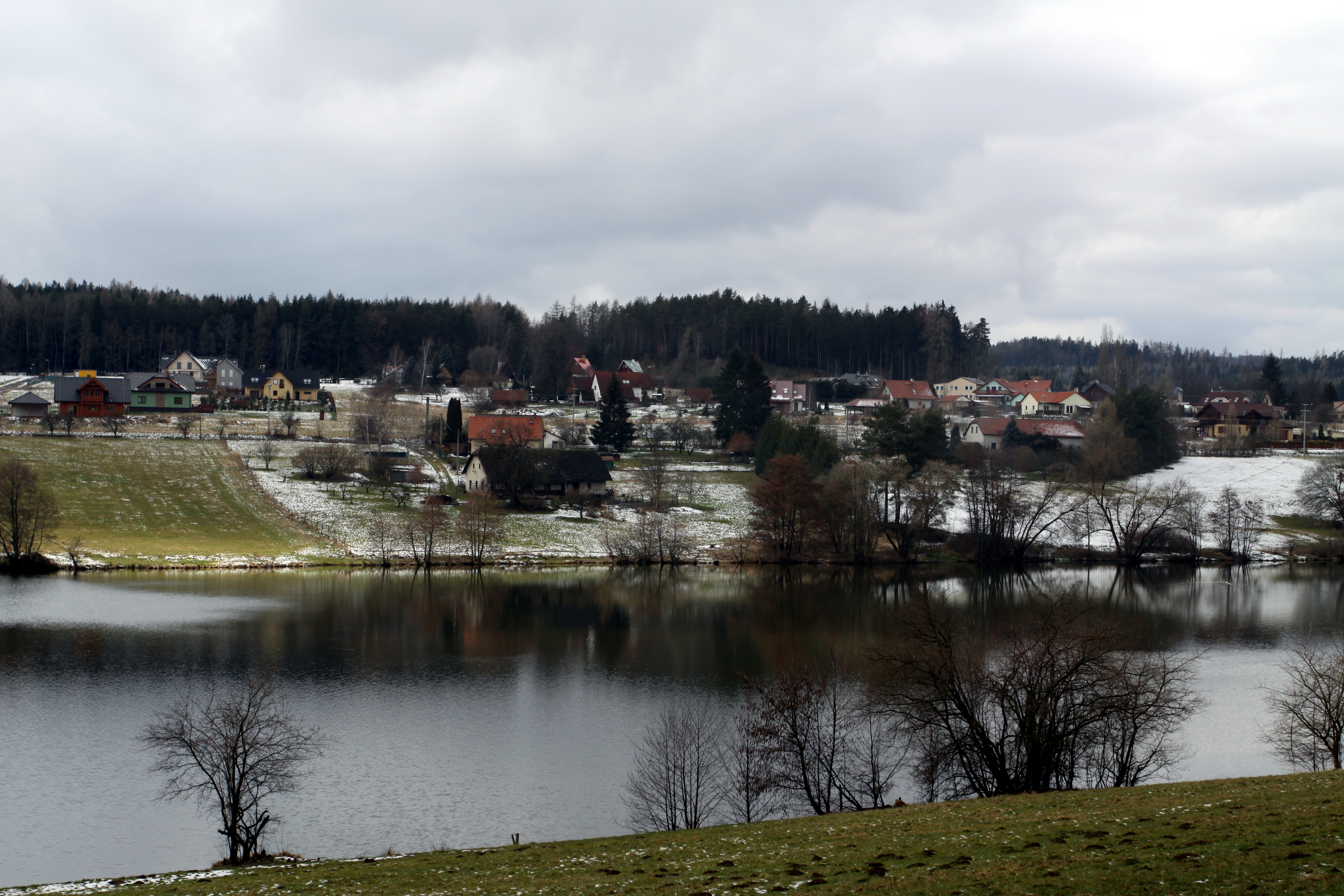 Záskalská dam on the Červený potok in Beroun District, Czech Republic